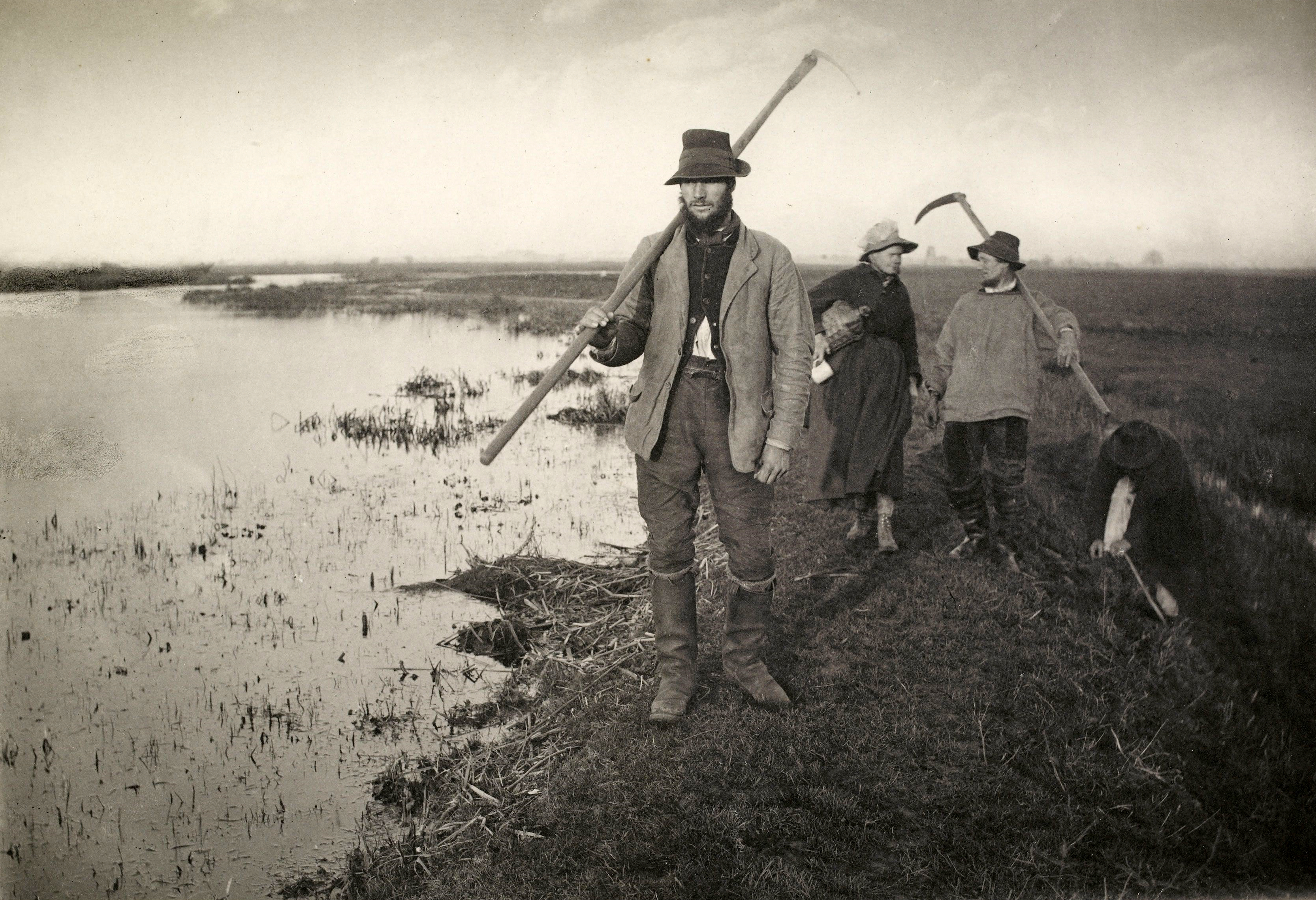 'Coming Home from the Marshes'. Platinum Print. From Life and Landscape on the Norfolk Broads, 1886